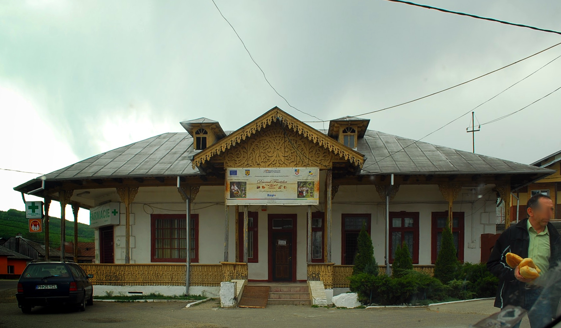 Ion Filipescu house in Vărbilău, Prahova County, RomaniaRomână: Casa cu prăvălie Ion Filipescu din Vărbilău, județul Prahova, România